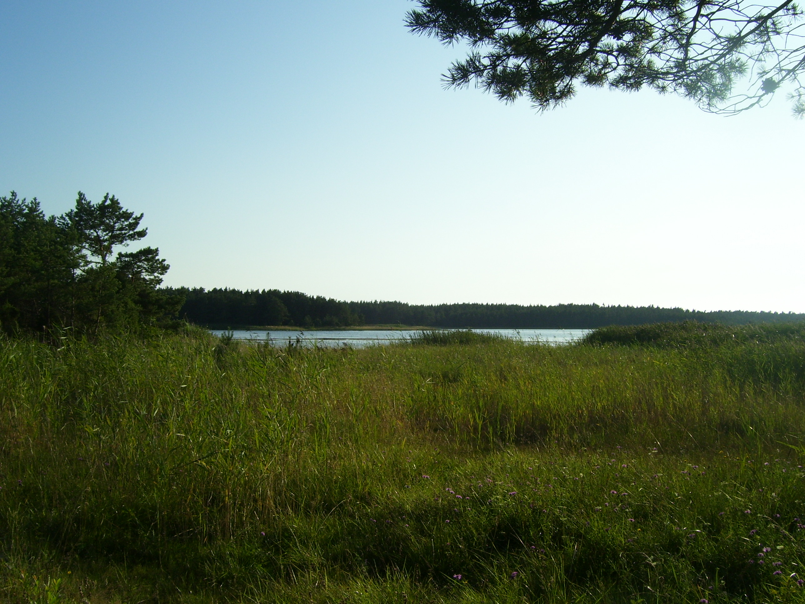 The peninsula of Papissaar (Estonia, Kihelkonna commune), view from NE.